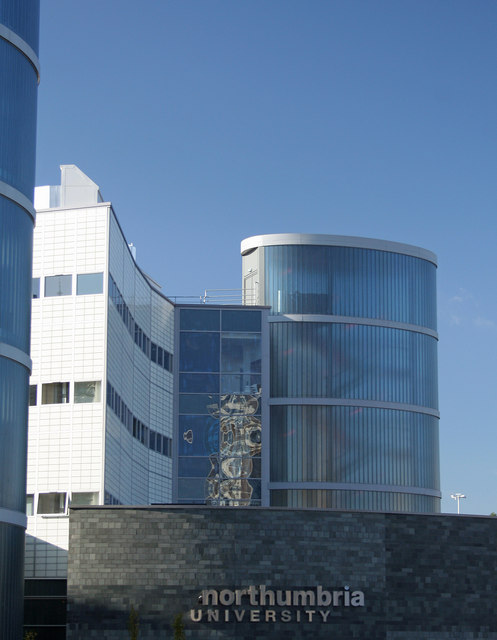 Northumbria University The new 'City Campus East' buildings of Northumbria University.